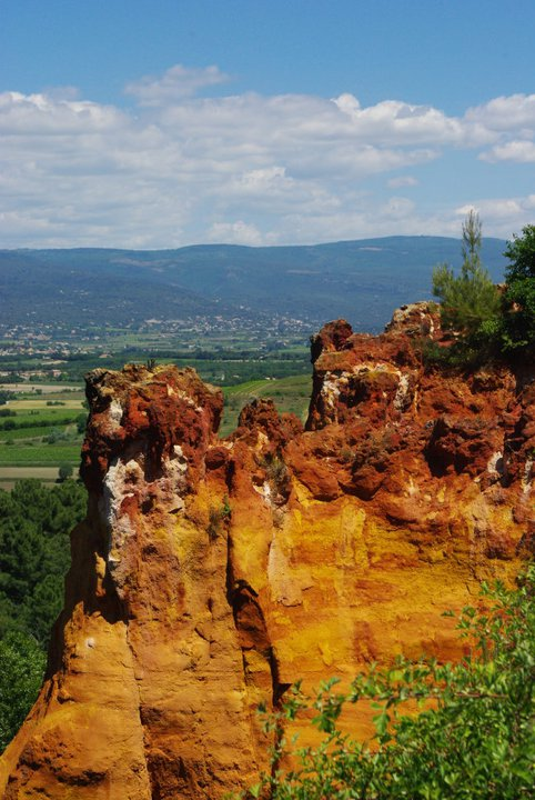 View of ochre rocks in Roussillon.